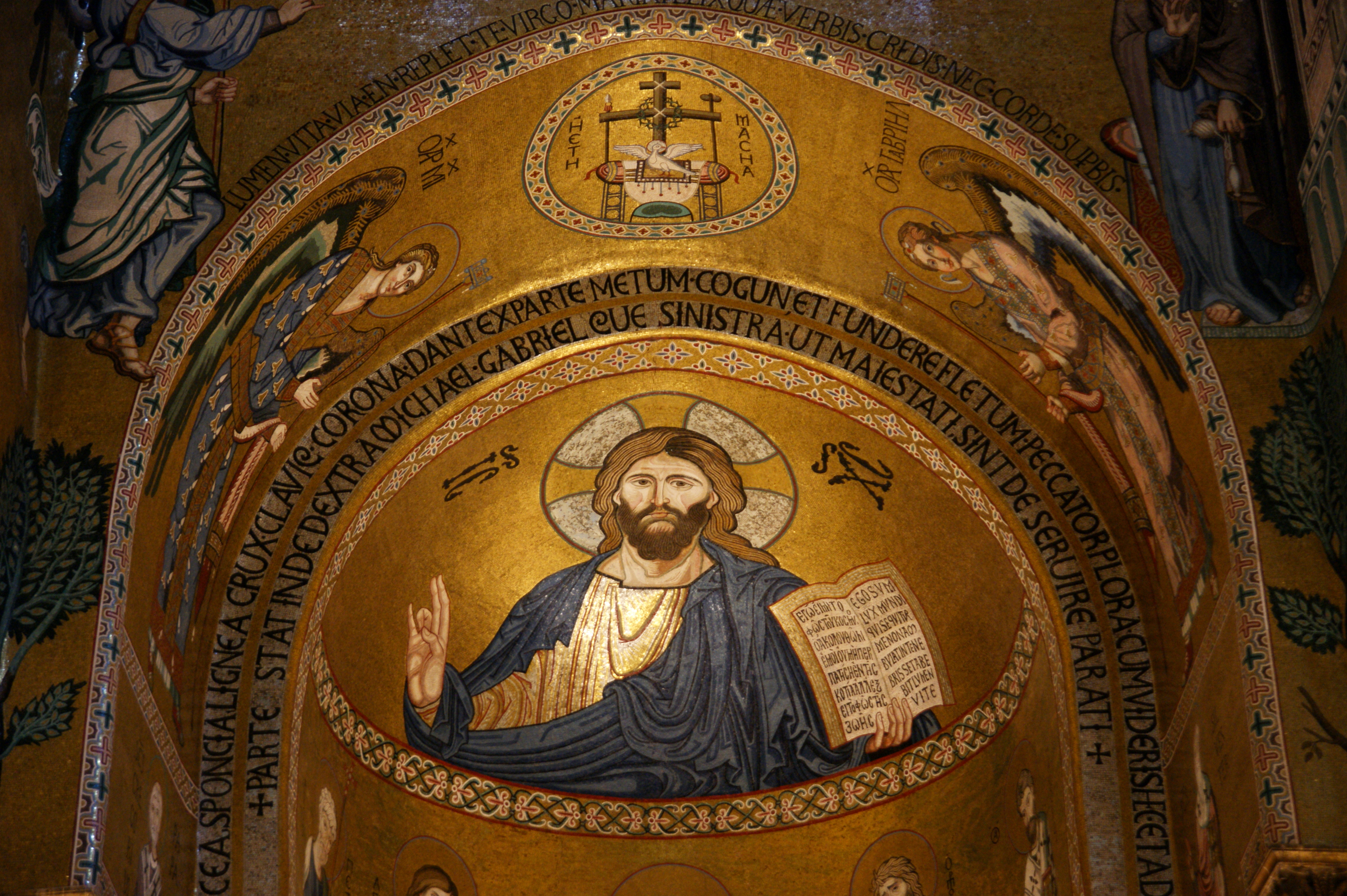 Cappella Palatina Palazzo dei Normanni (Palermo)